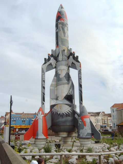 Guernica Three The Thunderbird Three Rocket in the Flagstaff Gardens, South Promenade underwent a complete transformation as artists created a large-scale representation of Pablo Picasso’s ‘Guernica’. It stands over fifty feet high and took over three weeks to hand paint.